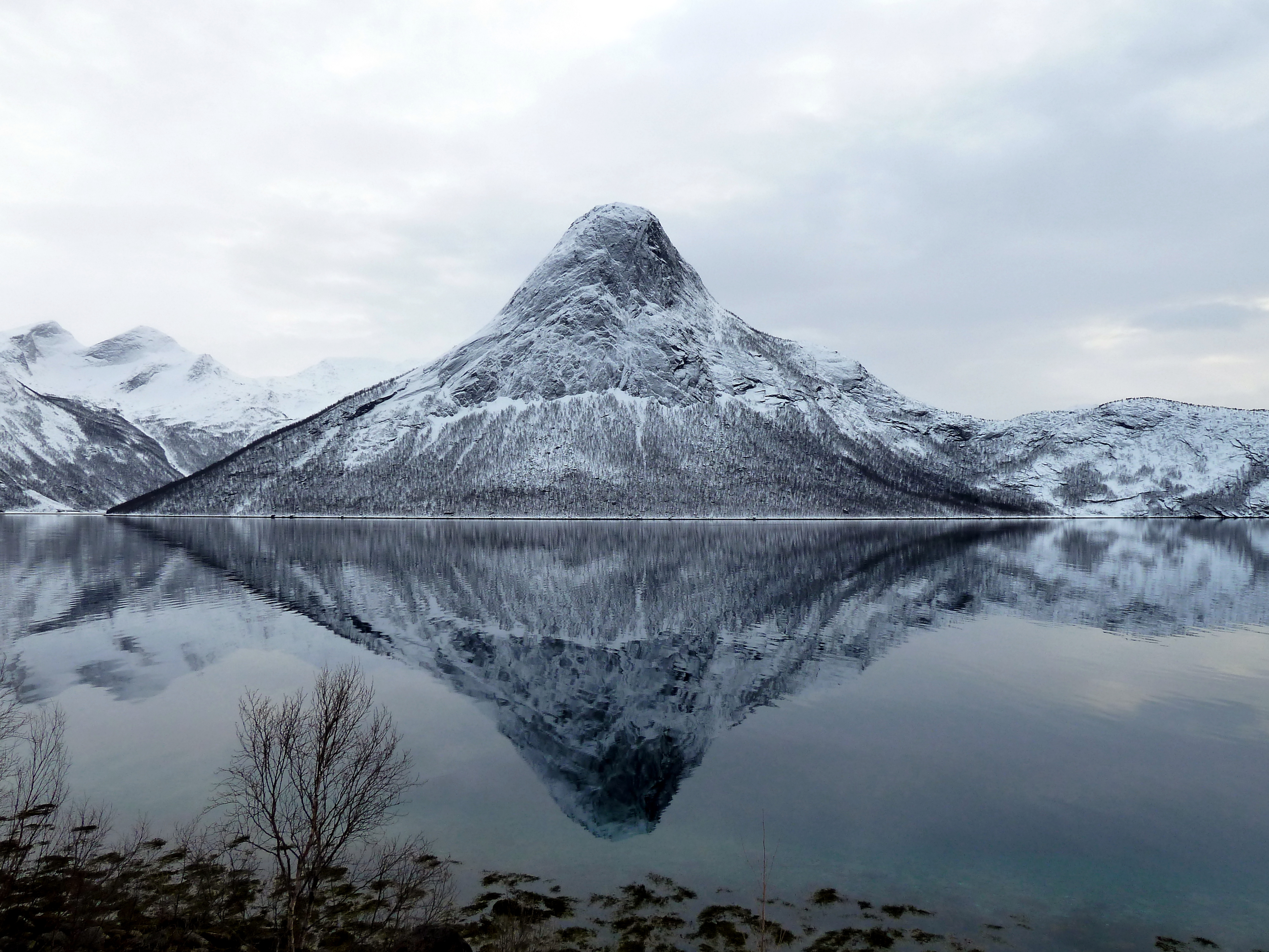 Mulbukttinden (Mulbukt Mountain) mirrors itself in Tømmeråsfjorden in Tysfjord, Norway.